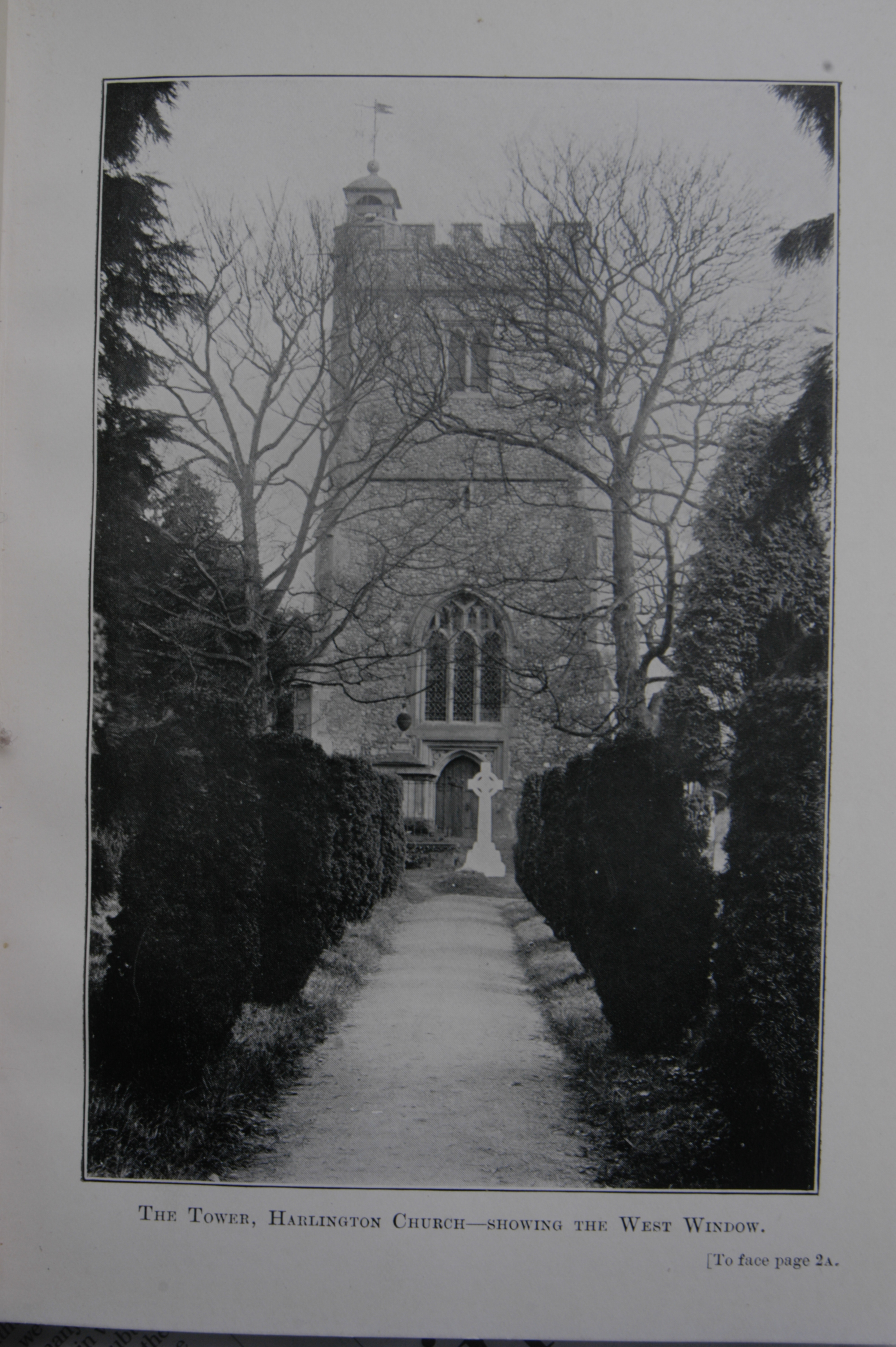 Photo (by me,R. de Salis, Rodolph (talk) 00:05, 24 January 2015 (UTC)) of printed photo The Tower (with now lost finial surmounted De Salis tomb nearby), Harlington Church, Middlesex. photograph published 1909. Other information Published in Eight Hundred Years of Harlington Parish Church in the County of Middlesex, by Rev. Herbert Wilson, MA, Rector, Uxbridge, 1909.